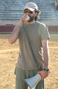 Antonio Pardo Sebastián